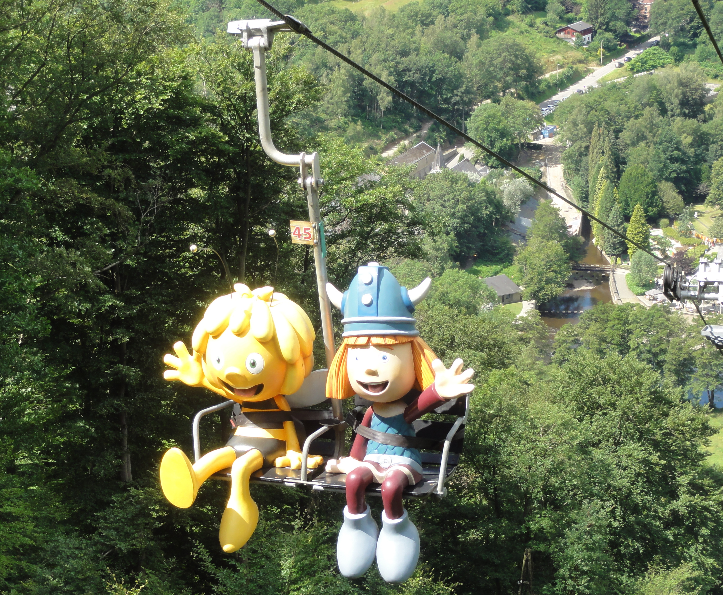 Depicted place: Plopsa Coo